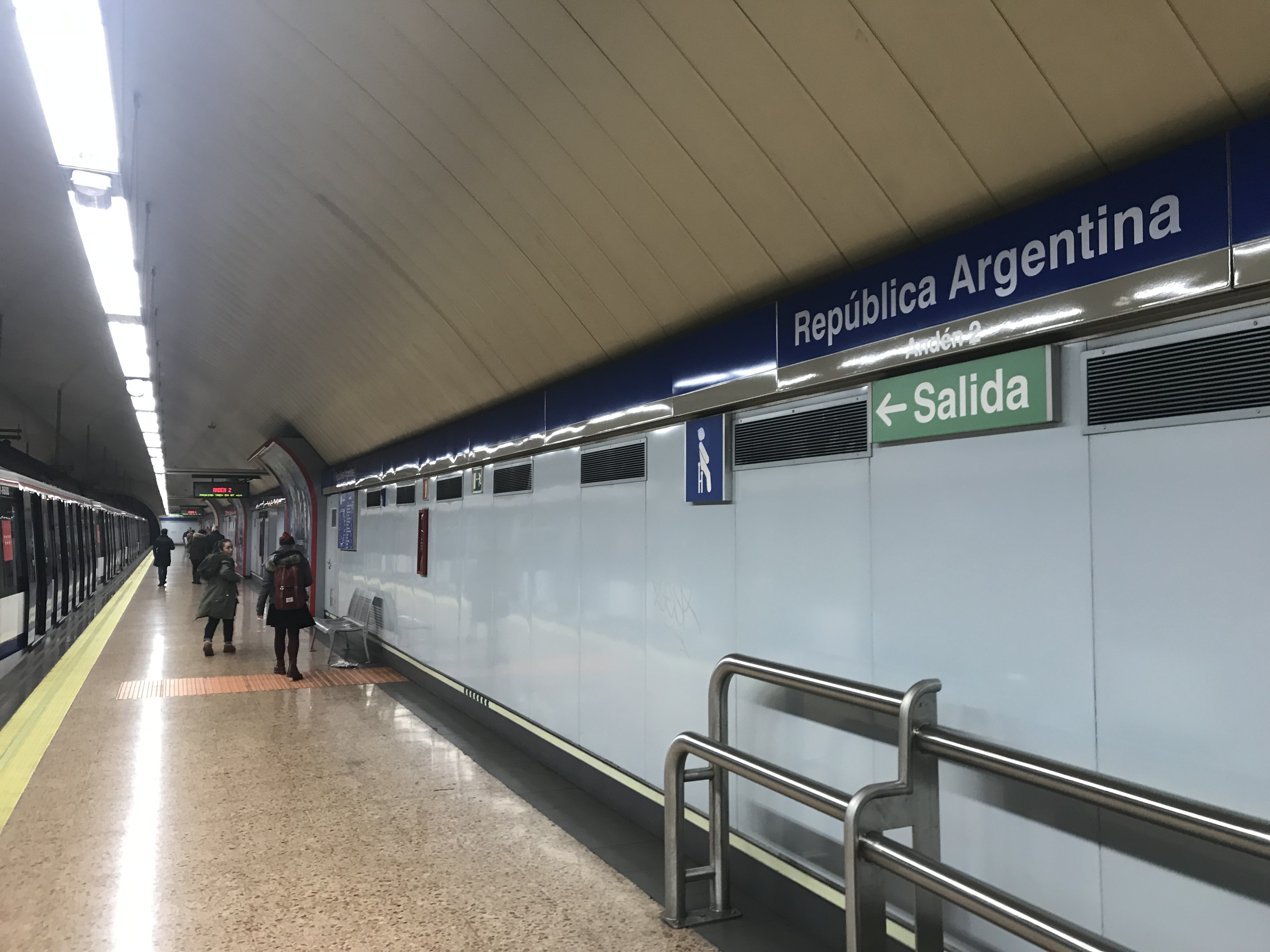 201803 Platform of República Argentina Station, a station named after its former colonial...